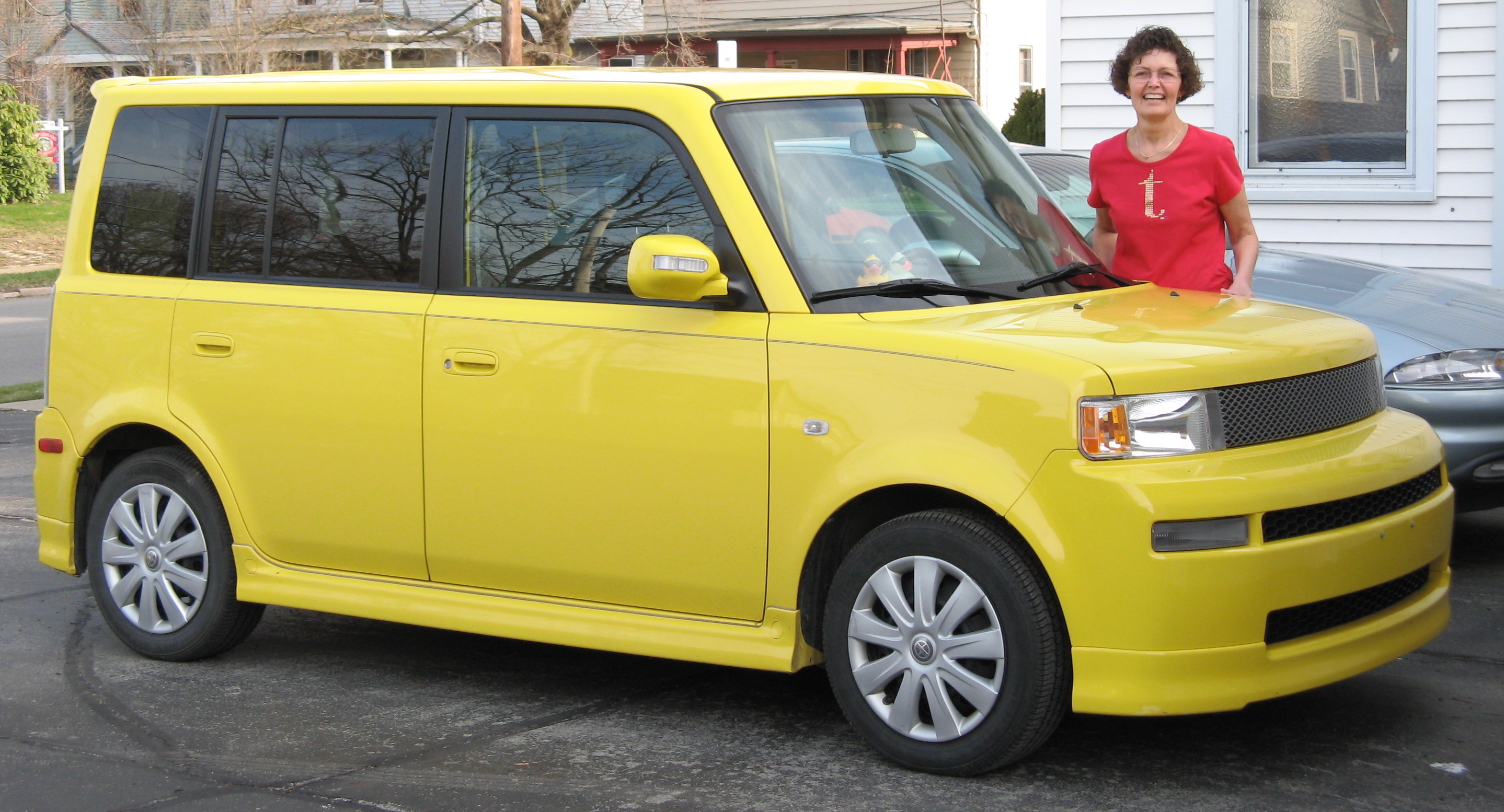 2005 Scion xB RS 2.0 Solar Yellow, photographed in United States.